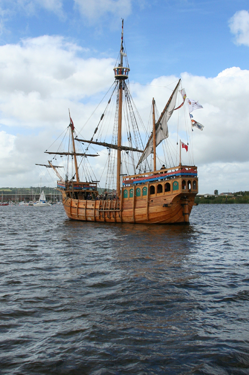 The tall ship 'Mathew' cruising in Cardiff Bay. Normaly based at Bristol, she was visiting for the Cardiff Harbour Festival.